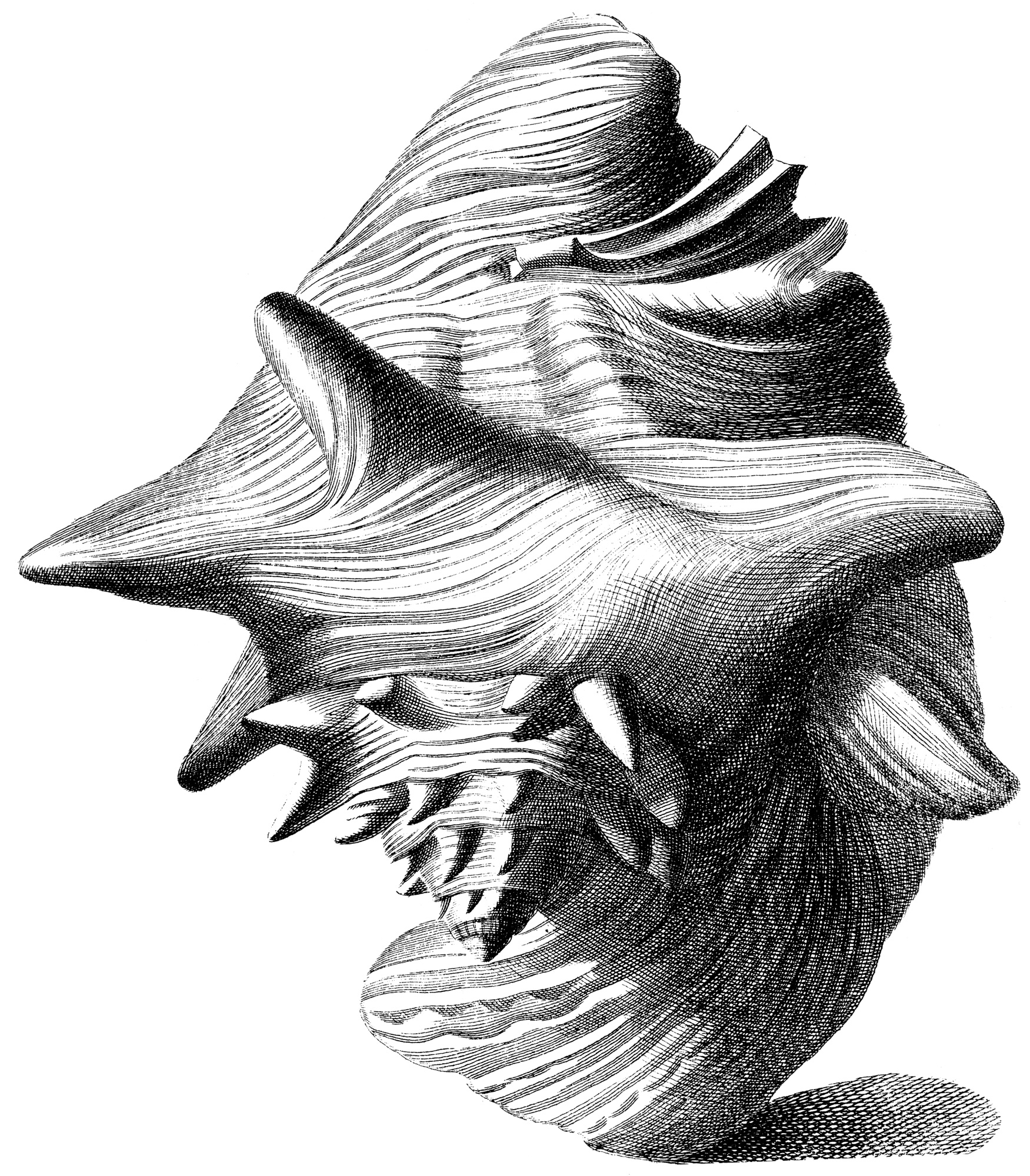 A drawing of a tropic snail Eustrombus gigas (Linnaeus, 1758)